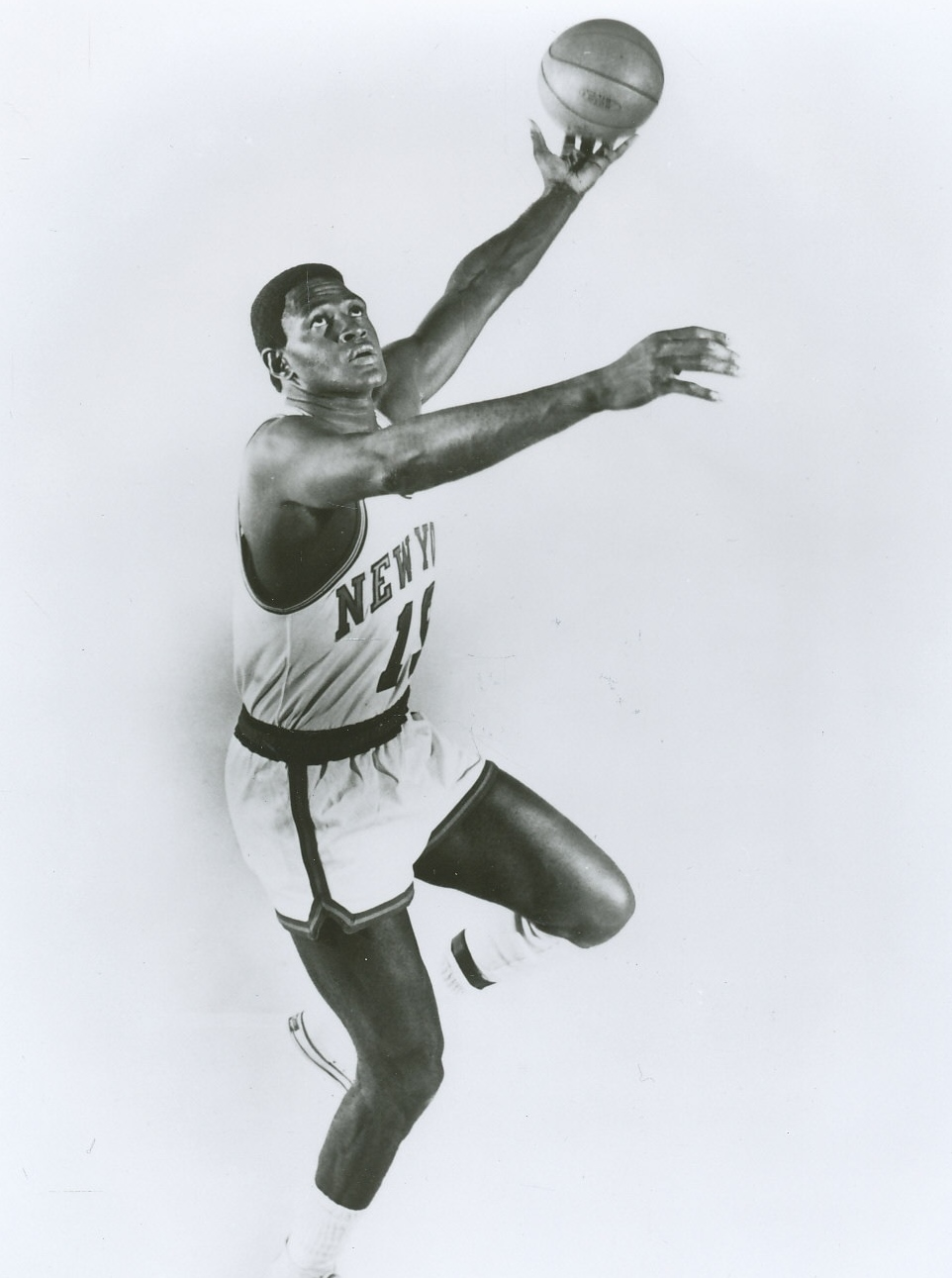 1972 publicity photo of basketball player Willis Reed issued to the media by the New York Knicks